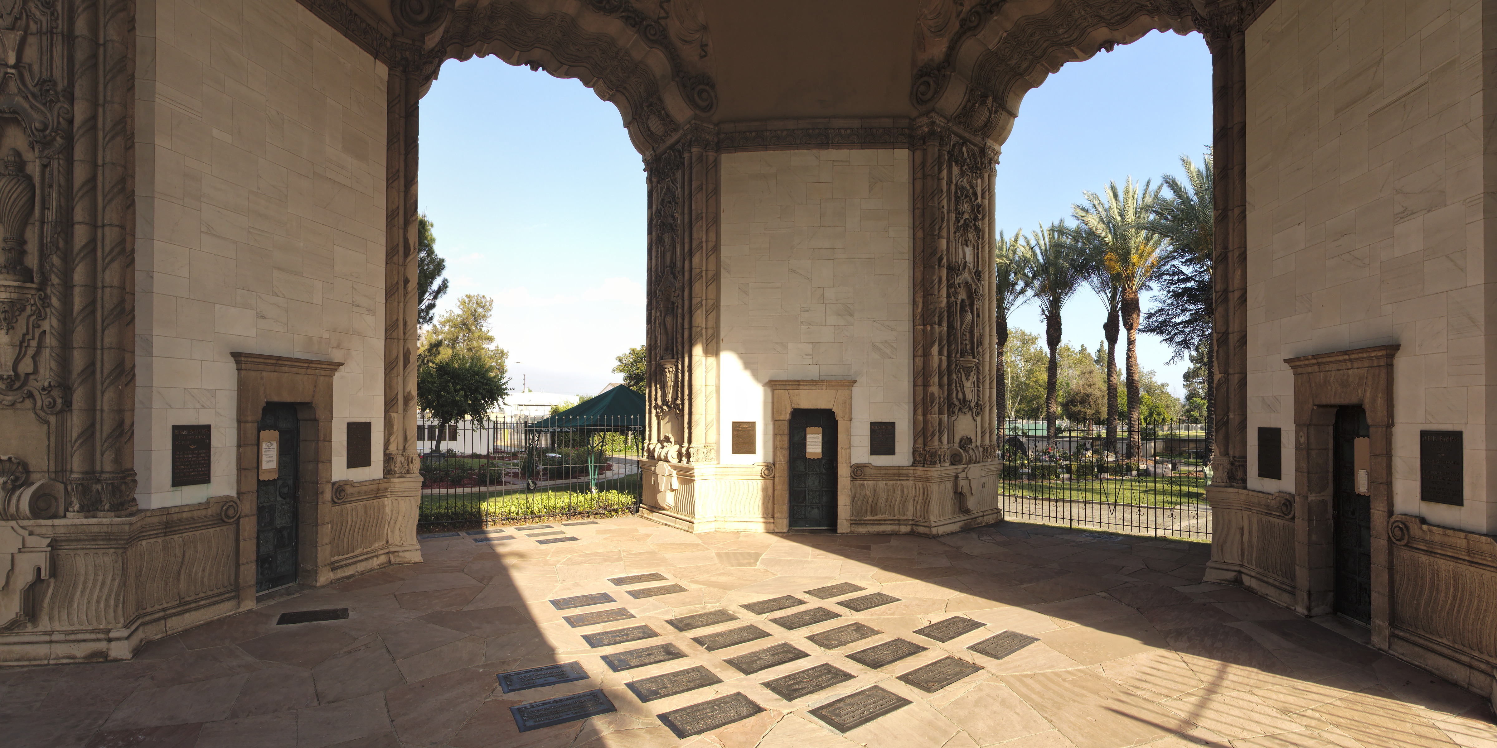 Interior of the Portal of the Folded Wings Shrine to Aviation, with markers visible on walls and floor.